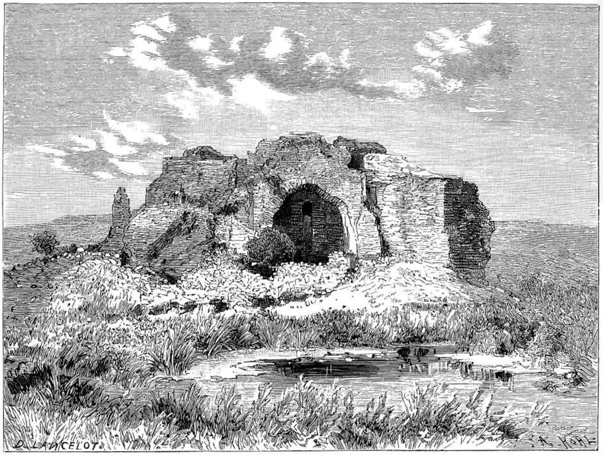 Palais de Fehruzabad, by Dieudonné Lancelot. From La Perse la Chaldee et la Susiane, chapter 26, by Jane Dieulafoy, 1887, A. Kohl publ.